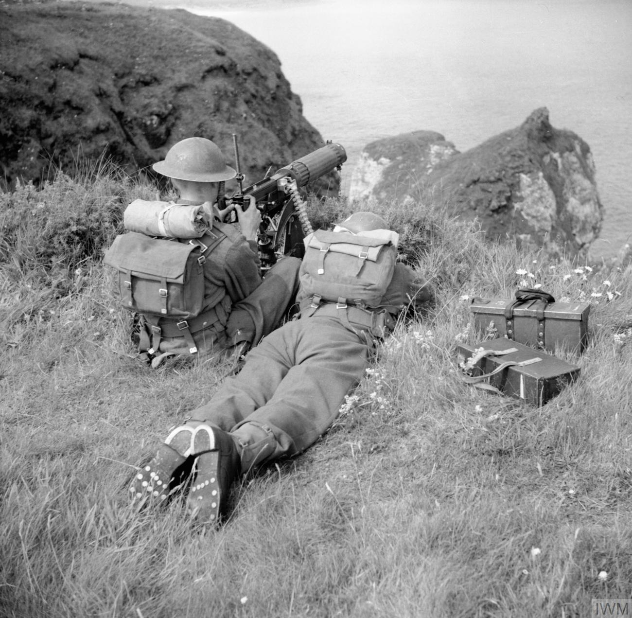 The British Army in the United Kingdom 1939-45 Vickers machine-gun team of 2/8th Battalion, Middlesex Regiment, man their weapon on a clifftop in Northern Ireland, 15 July 1941.